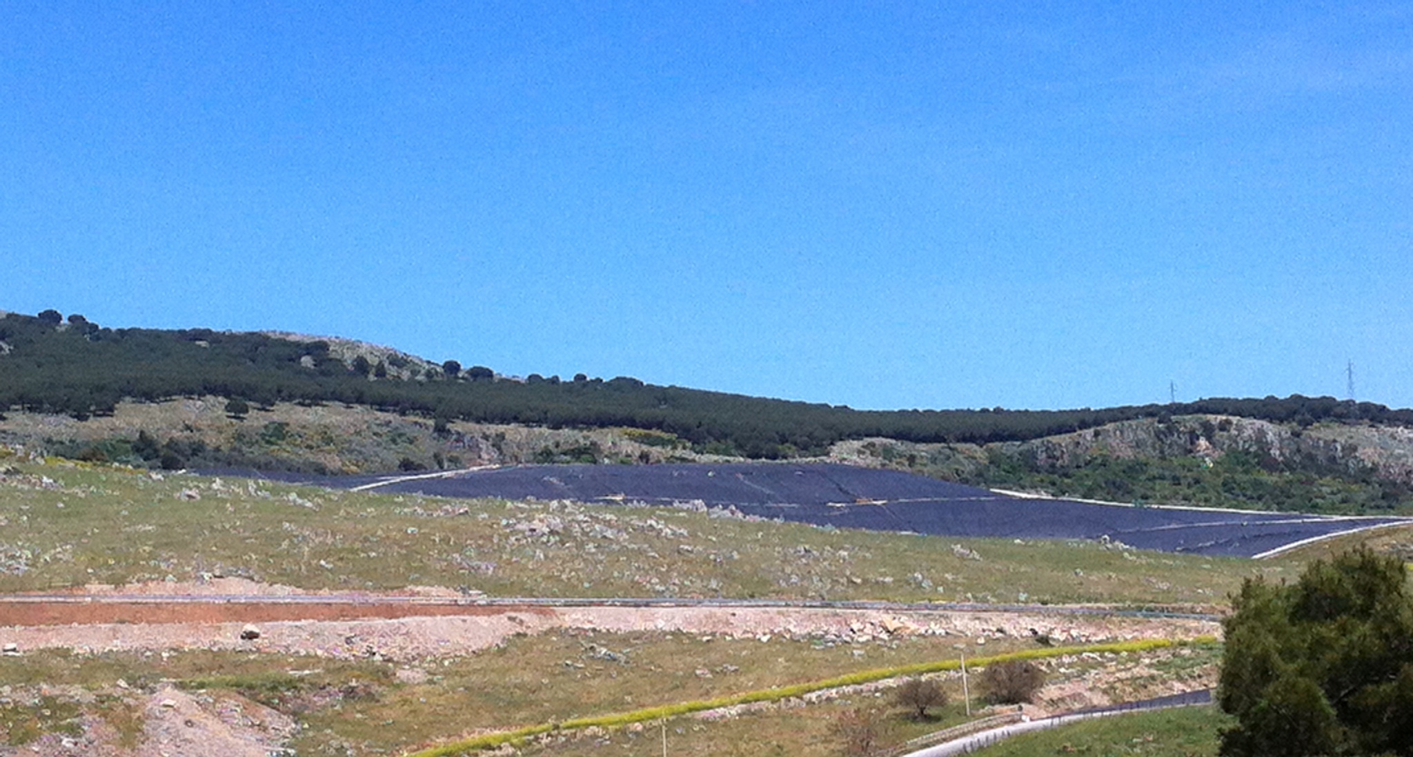 Bellolampo dump - Palermo